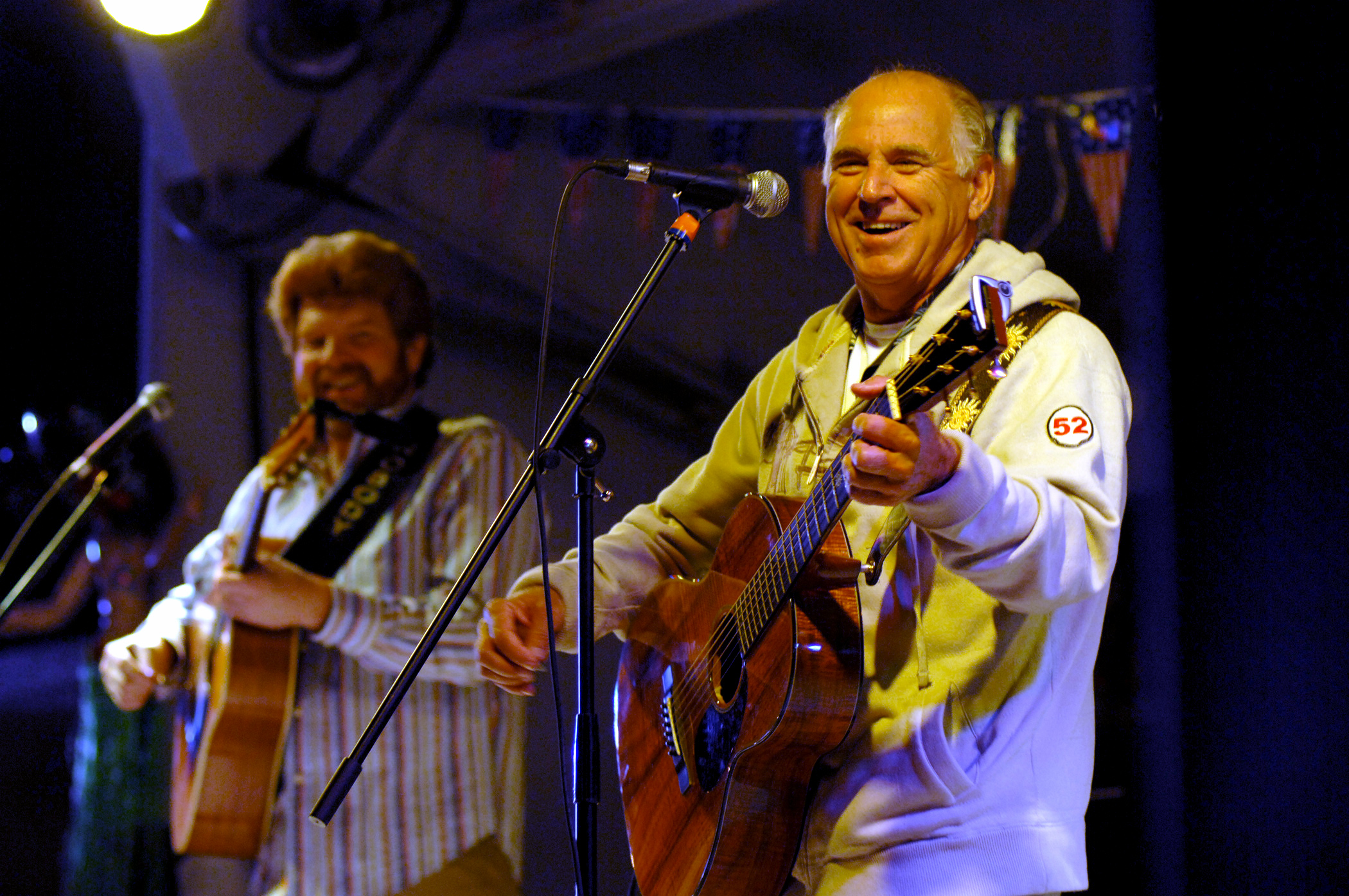 MIDDLE EASTERN PORT (Jan. 28, 2008) Recording artists Jimmy Buffett, right, and Mac Macnally, a member of the "Coral Reefer Band," perform a USO concert for the Sailors of the Nimitz-class aircraft carrier USS Harry S. Truman (CVN 75) during a recent port visit in the Middle East. Truman and embarked Carrier Air Wing (CVW) 3 are underway on a scheduled deployment supporting Operations Iraqi Freedom, Enduring Freedom and maritime security operations. U.S. Navy photo by Chief Mass Communication Specialist Michael W. Pendergrass (Released)